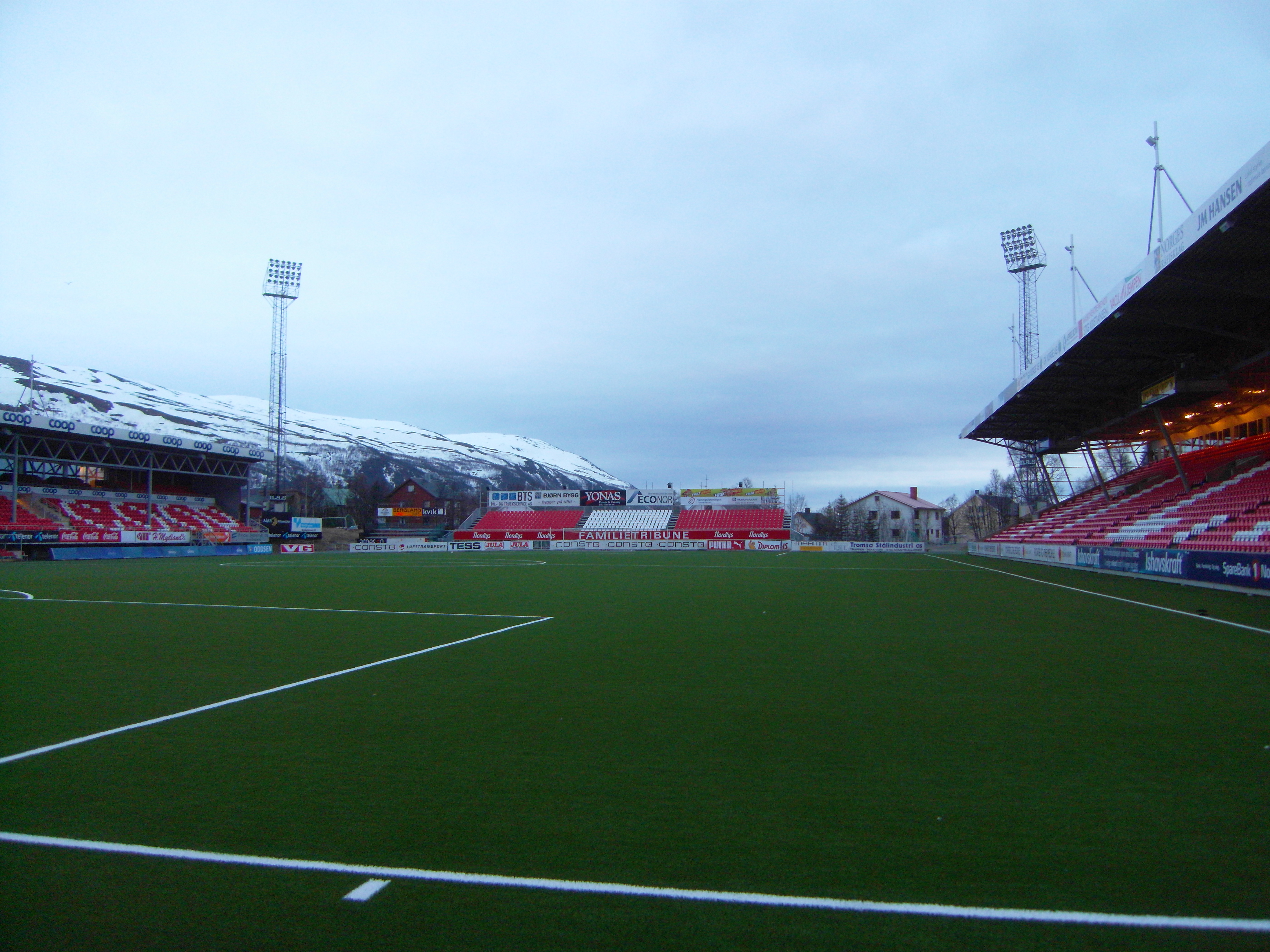 Tromso's Artificial Pitch